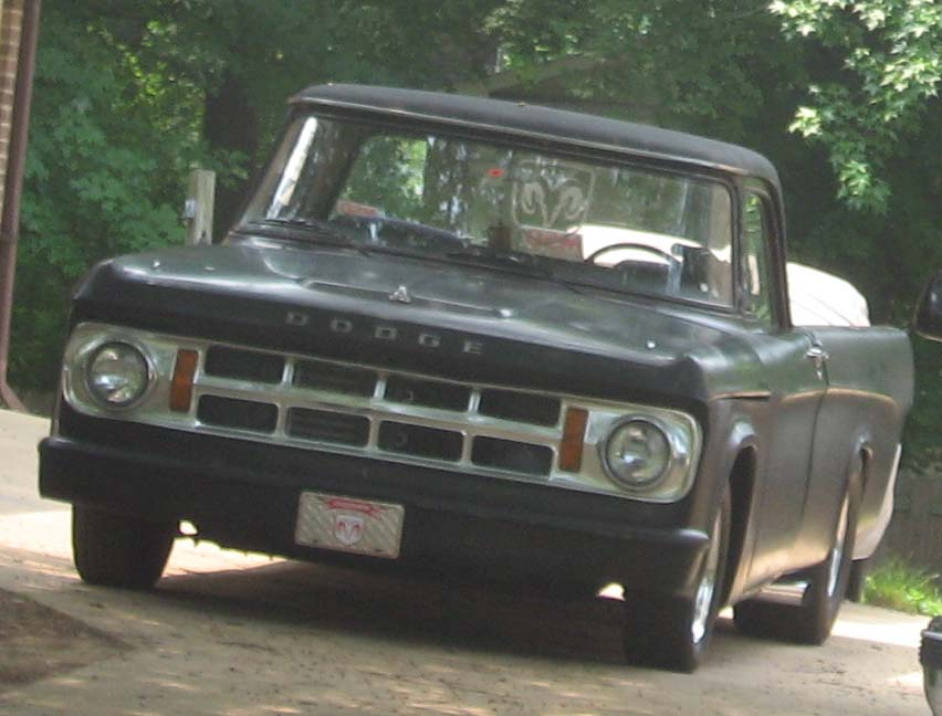 Dodge D-Series pickup photographed in USA.